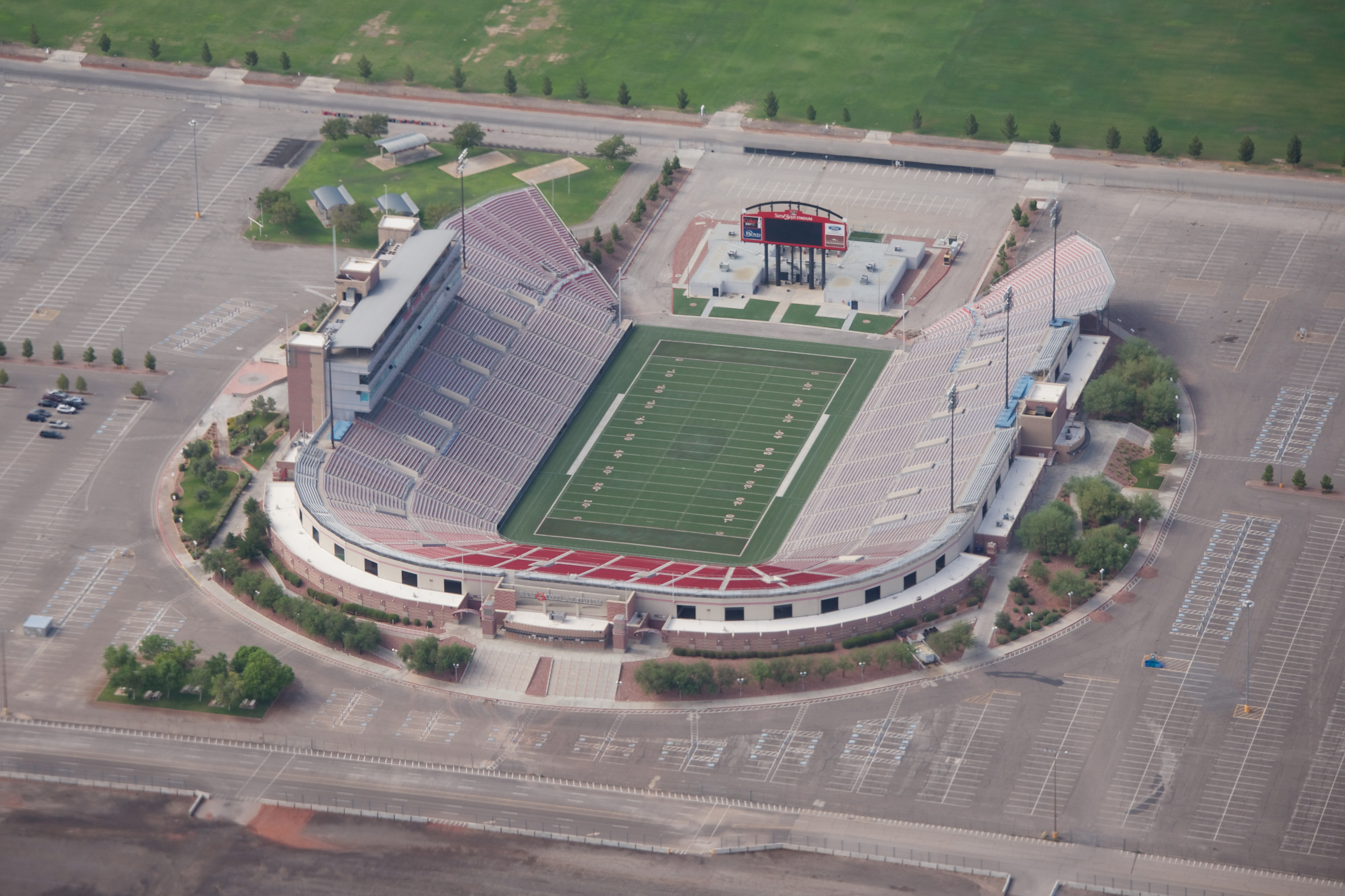 Aerial photograph of Sam Boyd Stadium